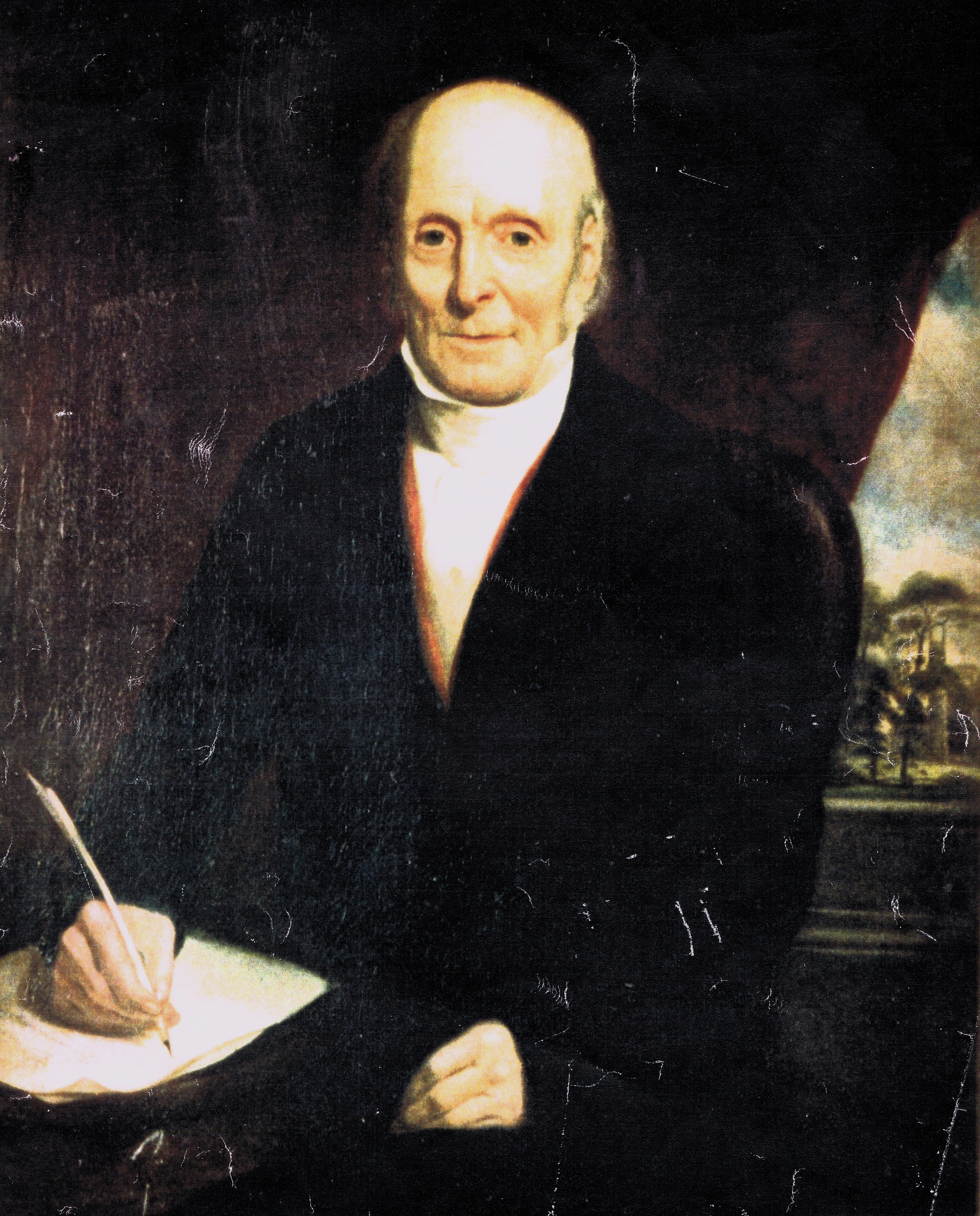 By Bennet Hubbard